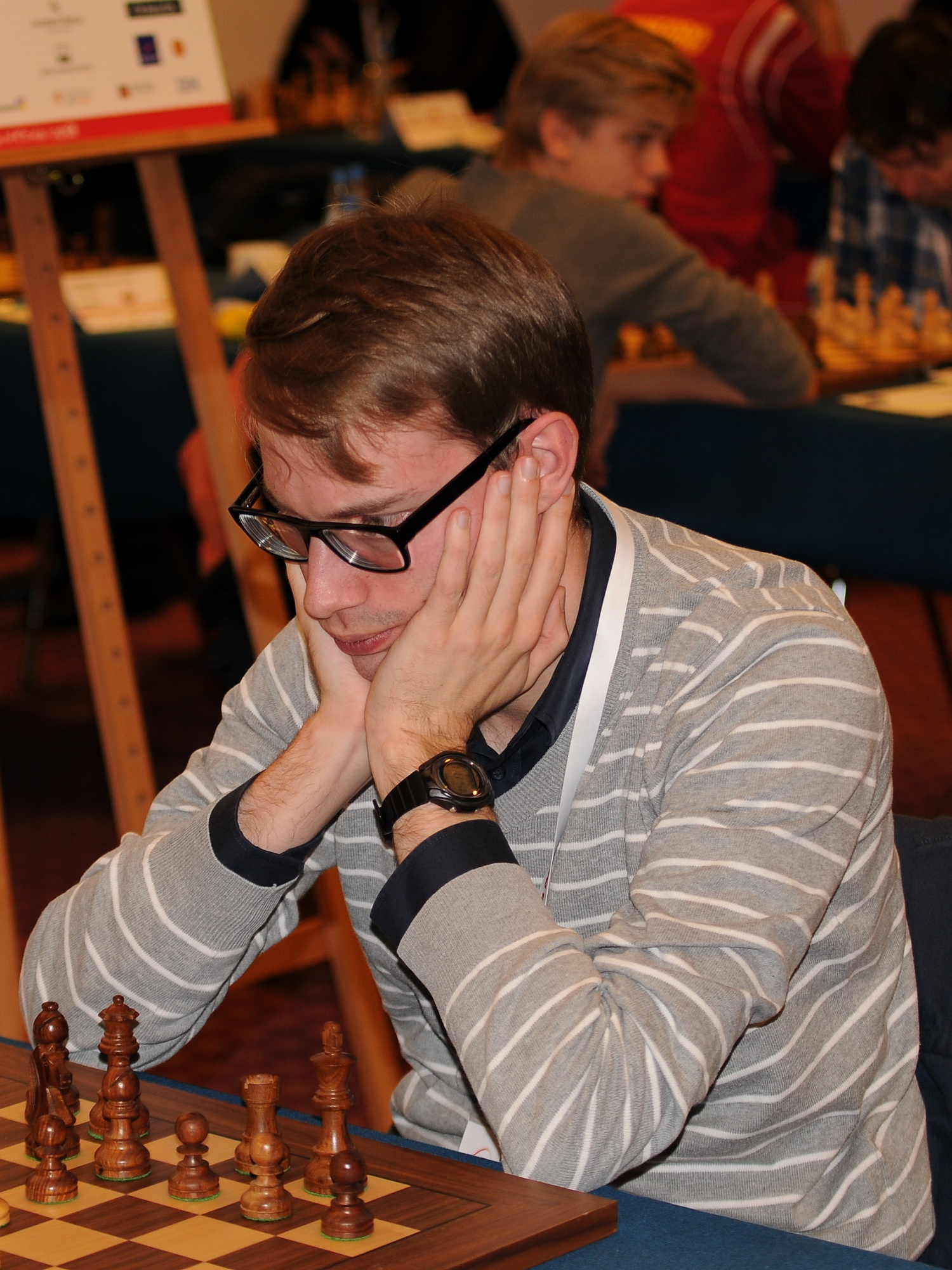 IM Bart Michiels, European Chess Team Championship Warsaw 2013